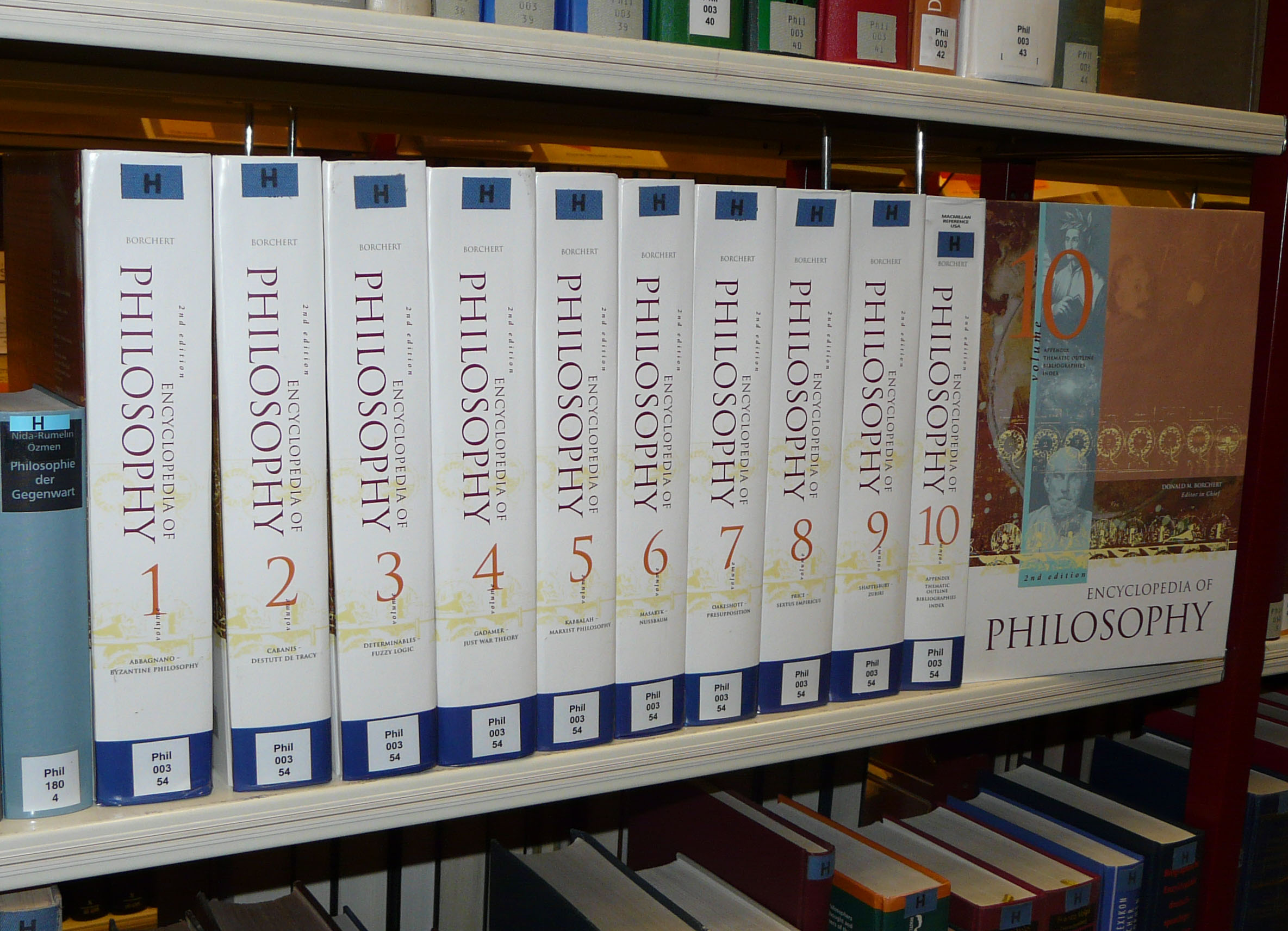 Cover: Encyclopedia of Philosophy / ed. Donald M. Borchert